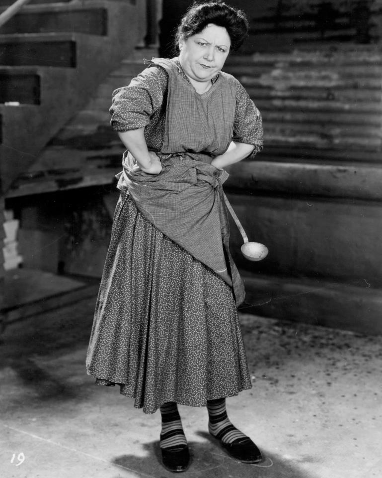 "El Conventillo de la Paloma" dirigida por Torres Ríos. María Esther Duckse en una escena de la película.